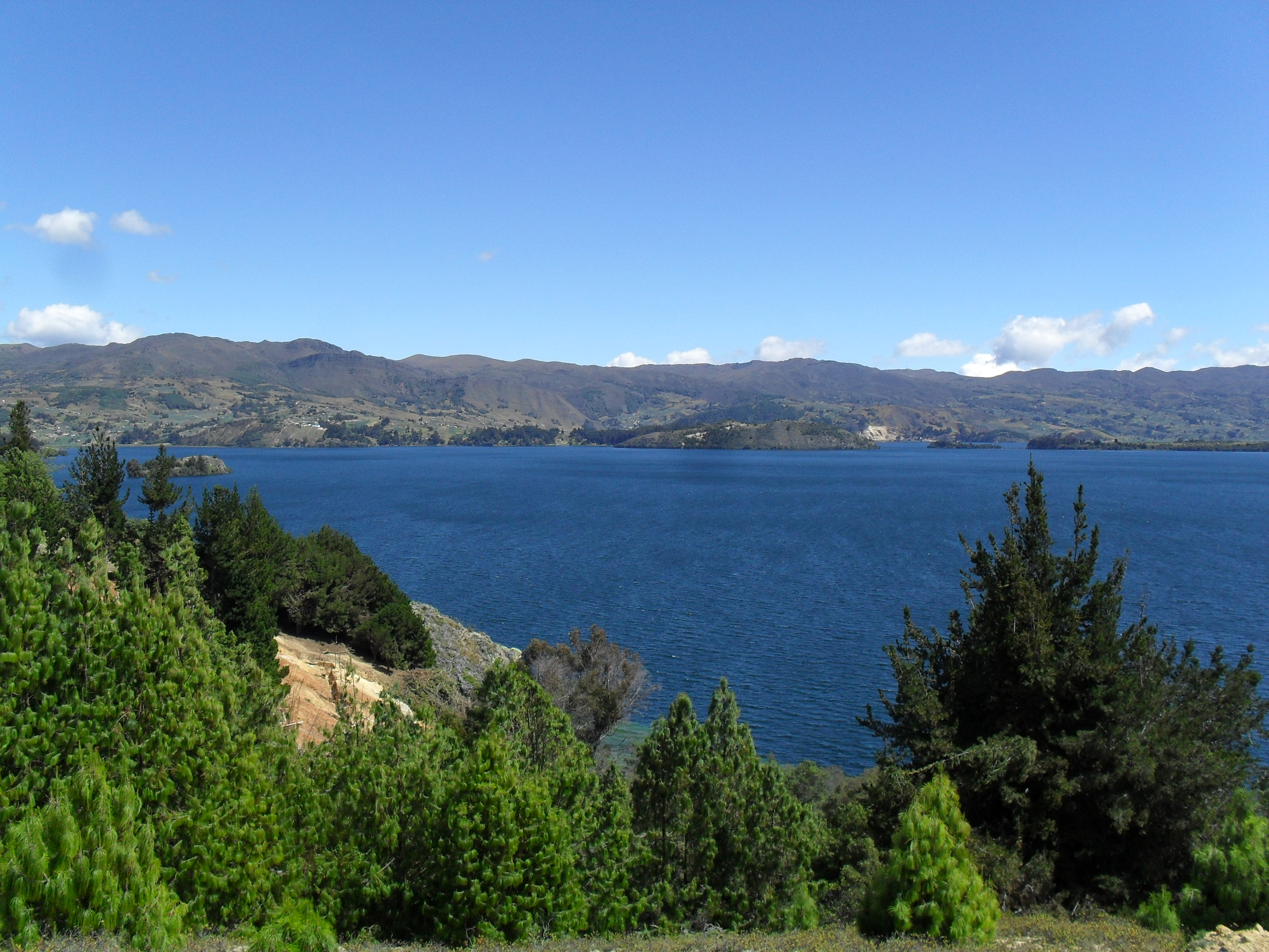 Tota Lake in Boyacá Departament, Colombia